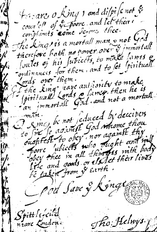 Message to King James I by Thomas Helwys in his book A Short Declaration of the Mistery of Iniquity (1612) that resulted in Helwys's imprisonment and death. Content as follows: "Heare, o King, and dispise not the counsell of the poore and let their complaints come before thee. The king is a mortall man and not God, therefore hath no power over the immortall soules of his subjects, to make lawes and ordinances for them, and to set Spiritual Lords over them. If the king have authority to make Spiritual Lords and lawes, then he is an immortall God, and not a mortall man. O King, be not seduced by deceivers to sine so against God whome thou oughtest to obey, nor against thy poore subjects who ought and will obey thee in all thinges with body, life and goods, or els let their lives be taken from the earth. God Save the King. Tho: Helwys. Spittlefeild neare London."